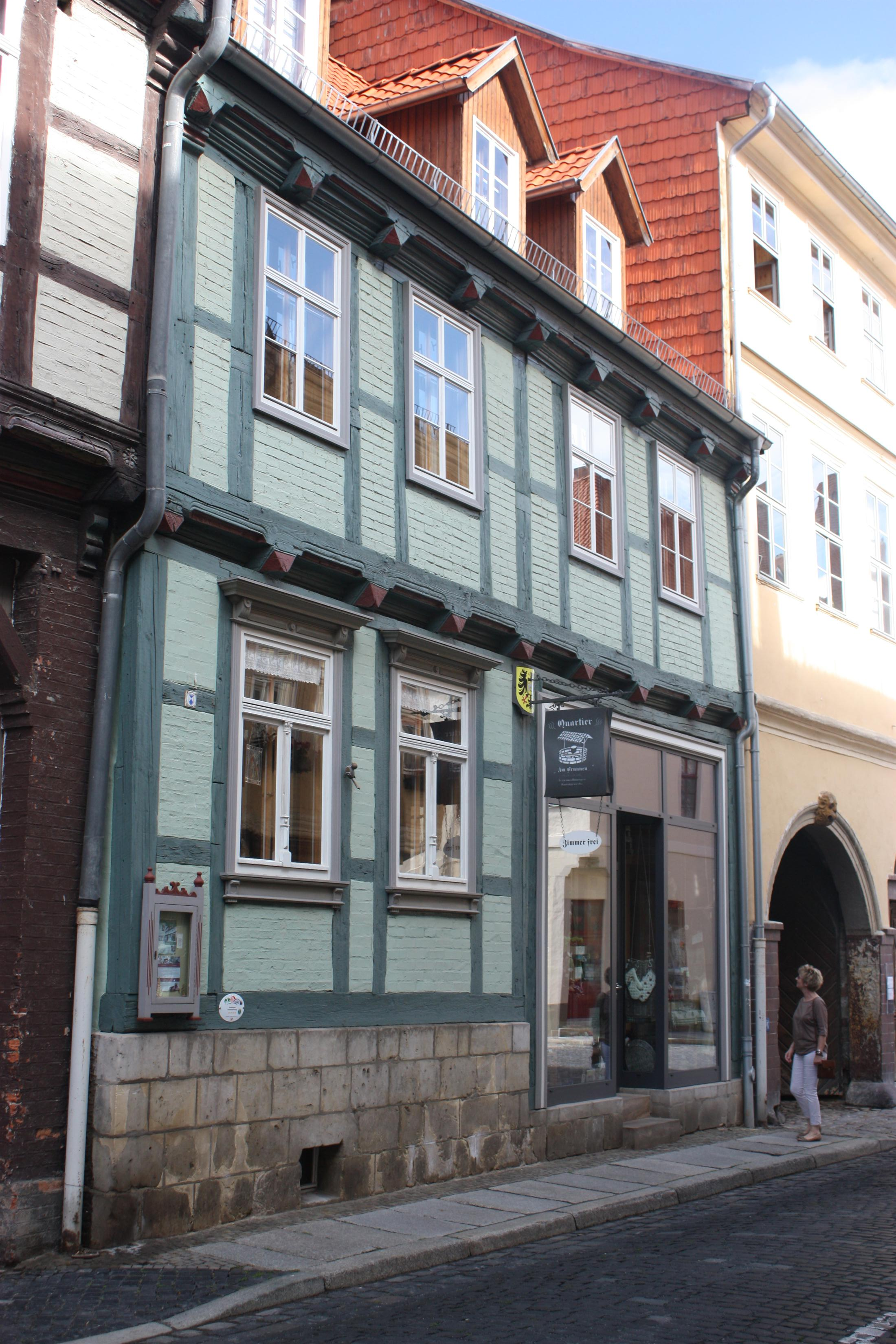 This is a photograph of an architectural monument.It is on the list of cultural monuments of Quedlinburg Hohe Straße 26